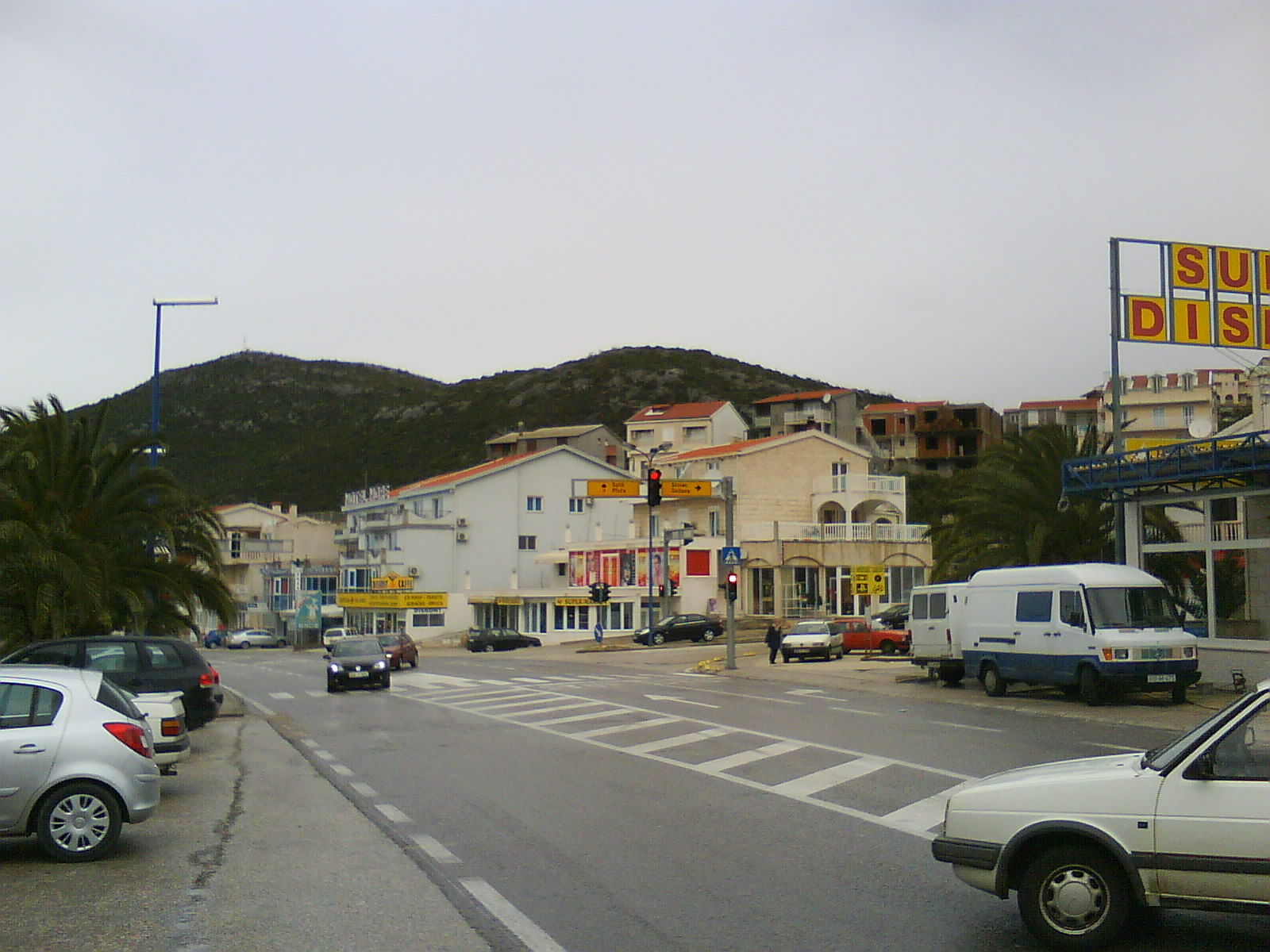 Crossroads in Neum